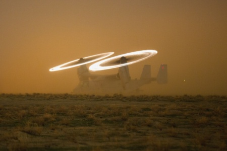 A U.S. Marine Corps MV-22 Osprey assigned to Special Purpose Marine Air-Ground Task Force-Crisis Response-Central Command (SPMAGTF-CR-CC) stages on a hasty landing zone during a tactical recovery of aircraft and personnel (TRAP) drill at an undisclosed location in Southwest Asia, Nov. 16, 2015. SPMAGTF-CR-CC is ready to respond to any crisis response mission in theatre to include the employment of a TRAP force. (U.S. Marine Corps photo by Cpl. Akeel Austin /Released)